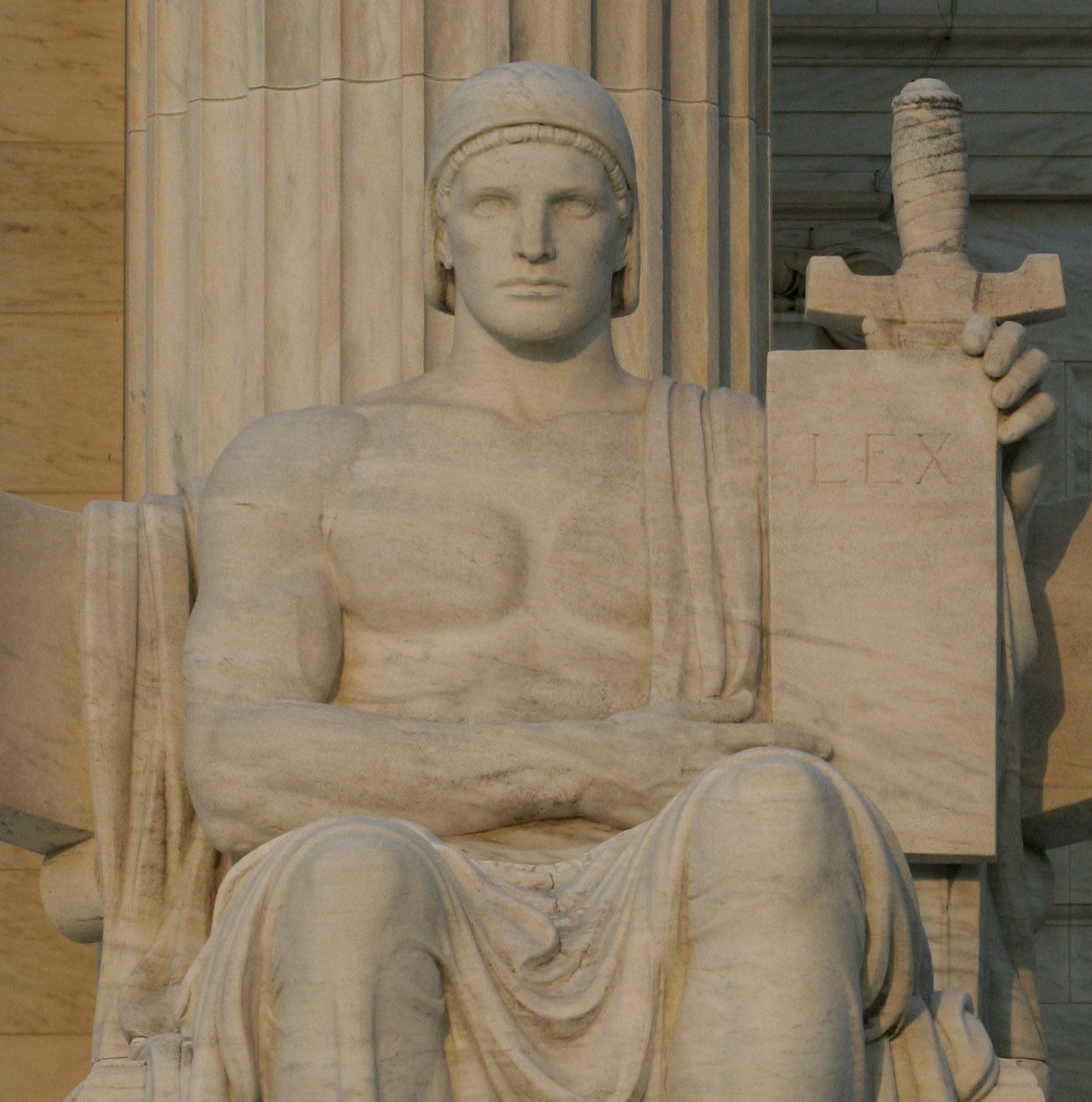 A single tablet inscribed with “LEX” is held by James Earle Fraser’s Authority of Law, located to the right of the front steps of the United States Supreme Court Building.